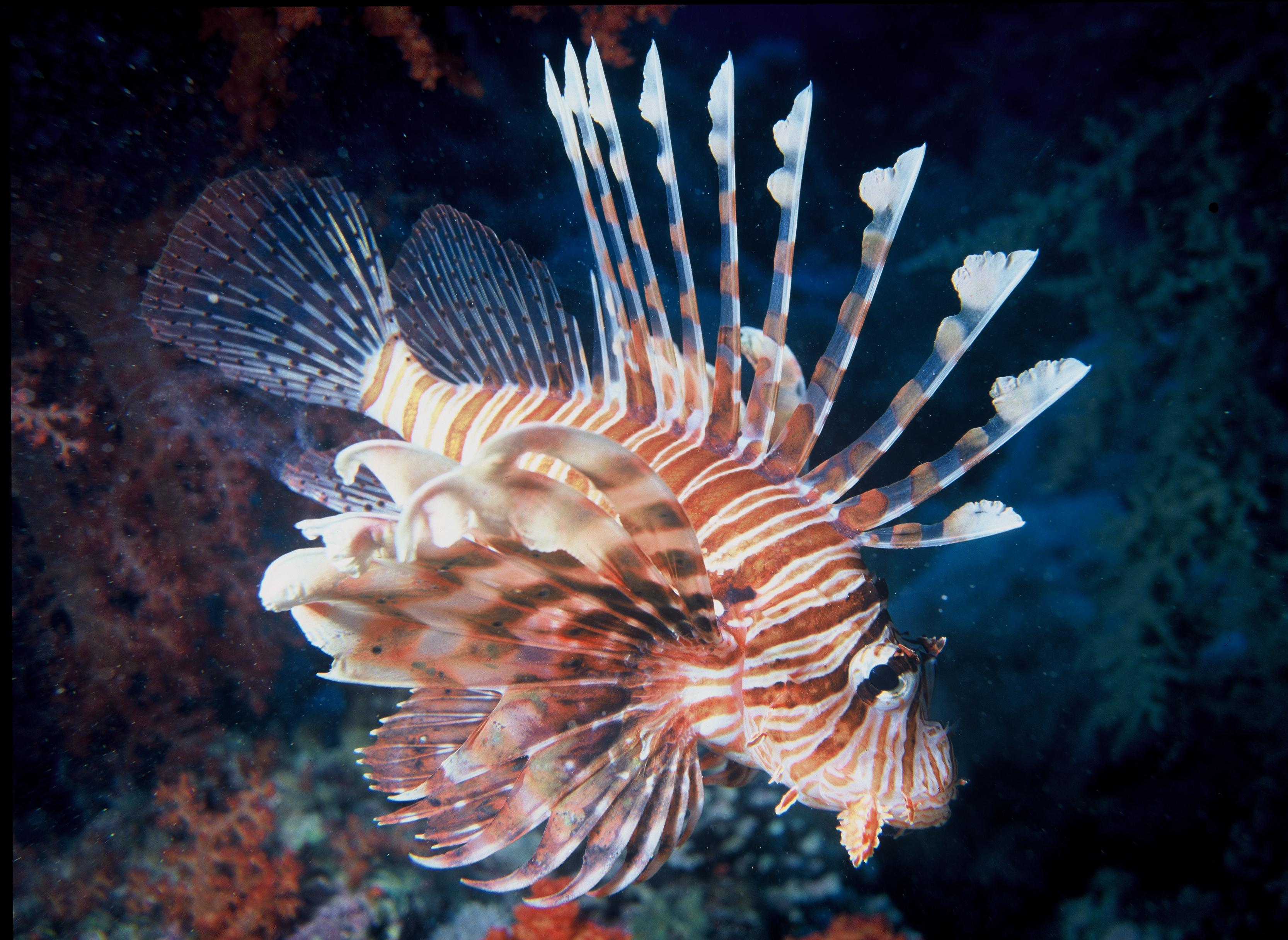 Lionfish (Pterois volitans)